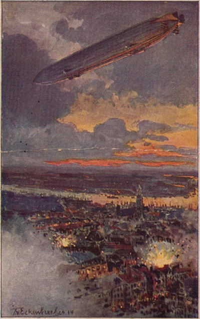 Zeppelin bombing Antwerpen 1914, after a painting from Themistokles von Eckenbrecher (1842-1921).